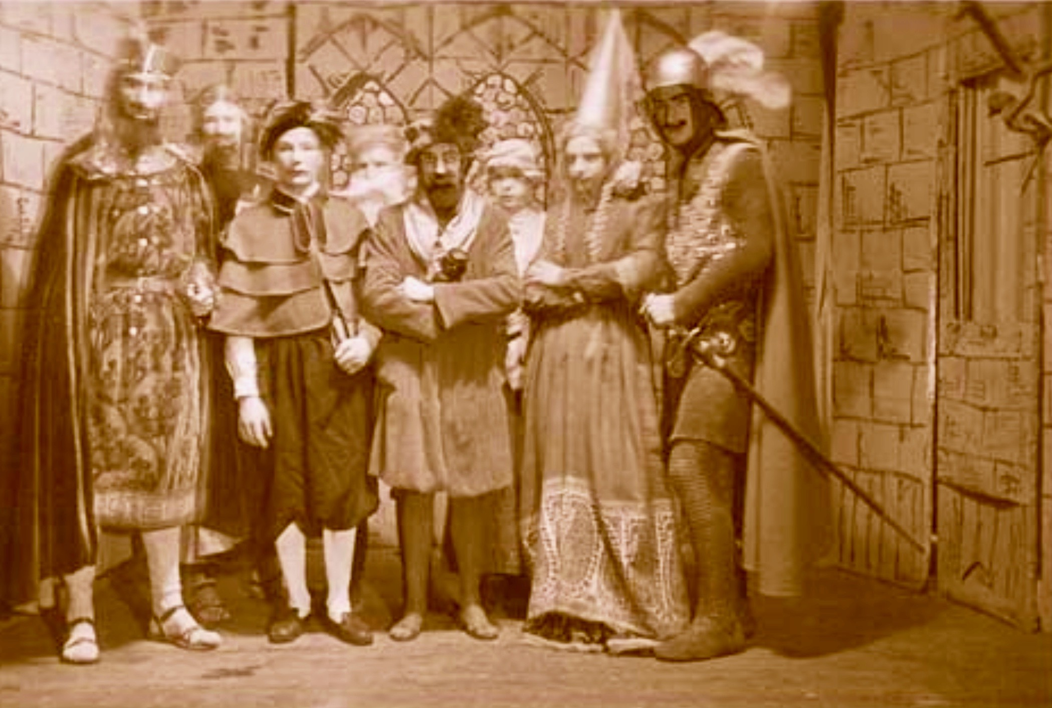 Stage setting of amateur-play grotesqueness 'Blut und Liebe' (Blood and Love – a chilling drama with medieval knights) by German author and reform pedagogue Martin Luserke (1880–1968). The picture shows most of the eleven young male players who performed on 27 January 1940 in Godesheim. The stage play was written in 1906 and first published in 1912. Its debut performance was at Freie Schulgemeinde Wickersdorf near Saalfeld in Thuringia, Germany.